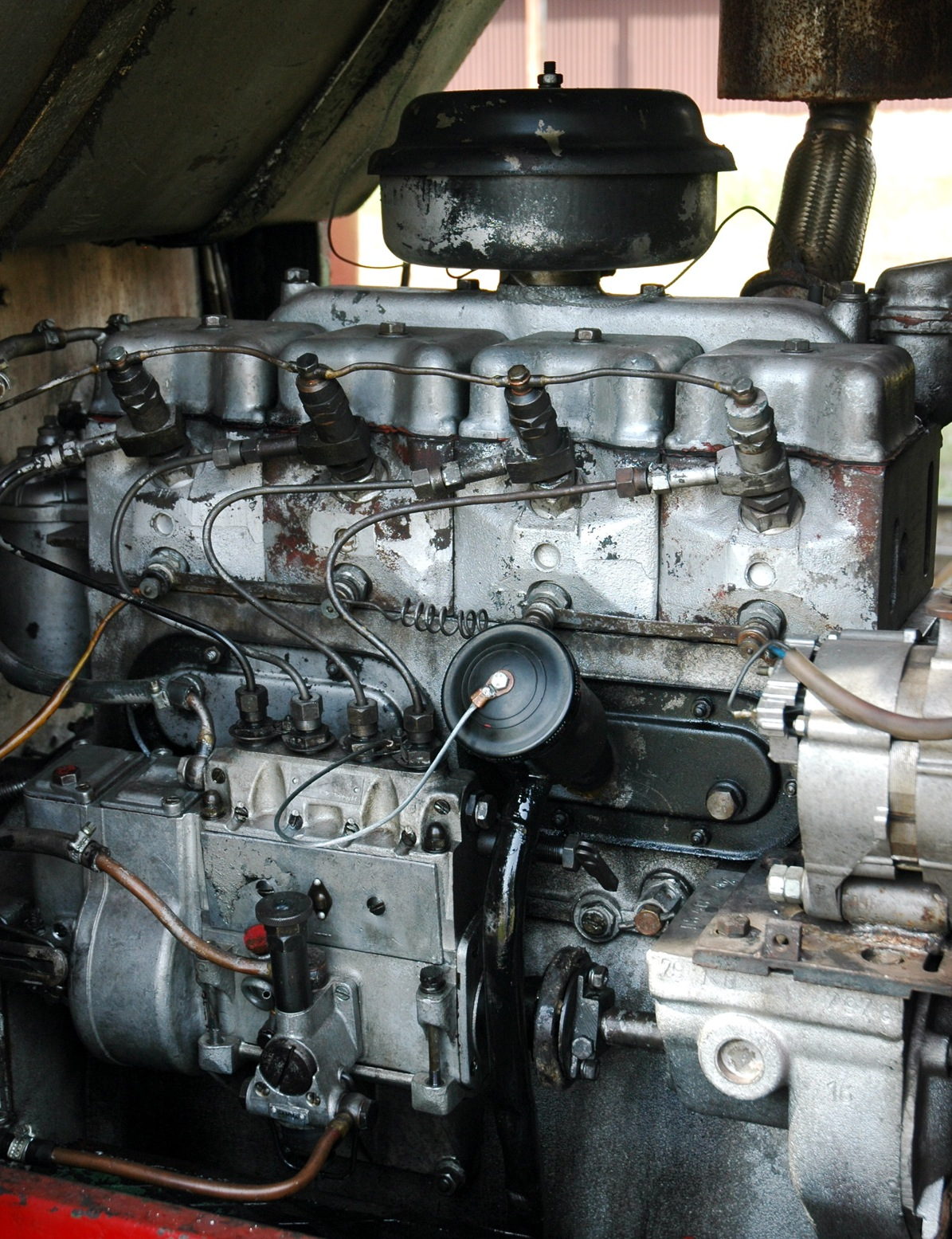 Csepel D414 diesel engine in C-50 narrow gauge locomotive (Csömödér, Zala County, Hungary)